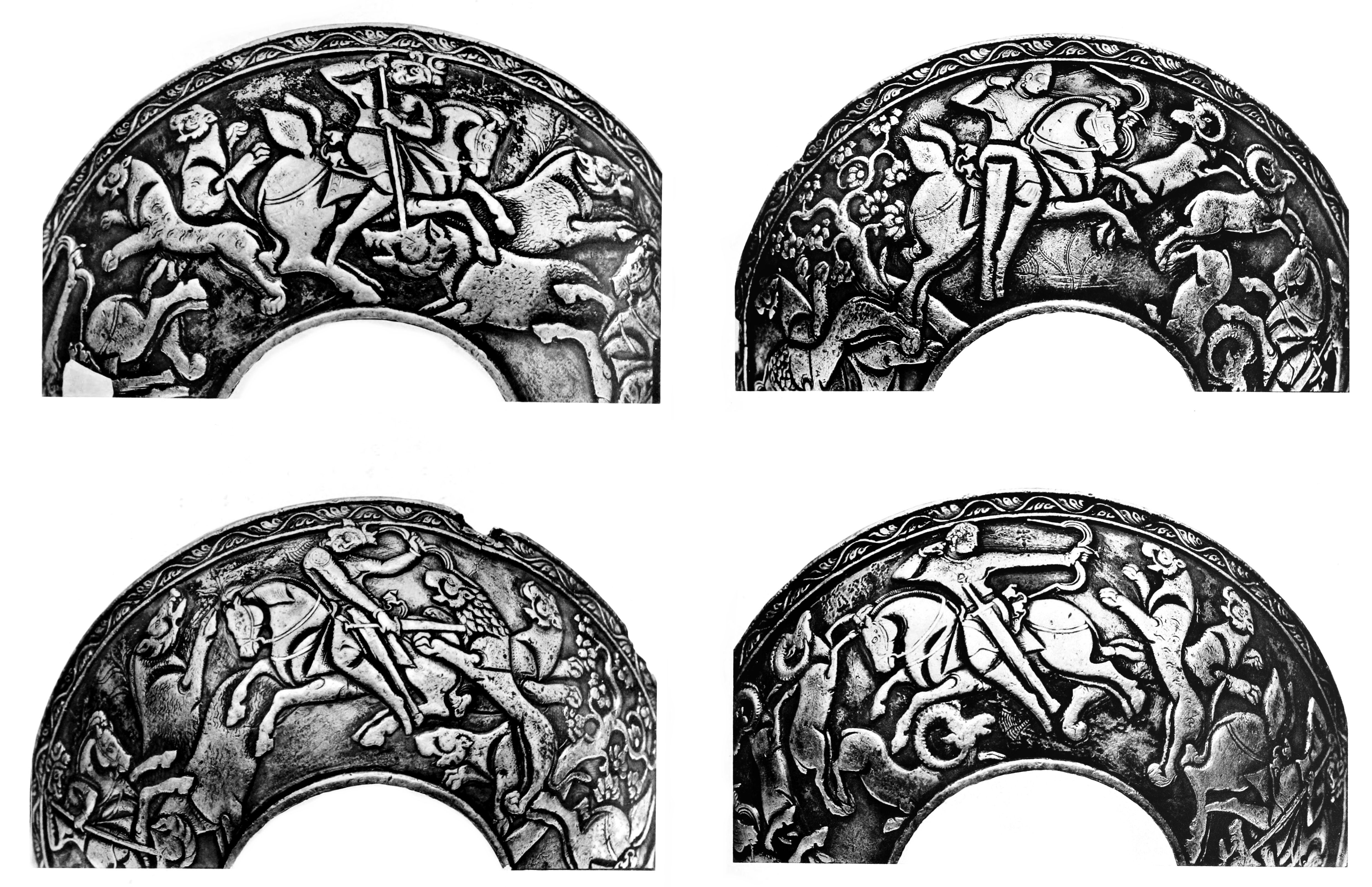 Hephthalites bowl details